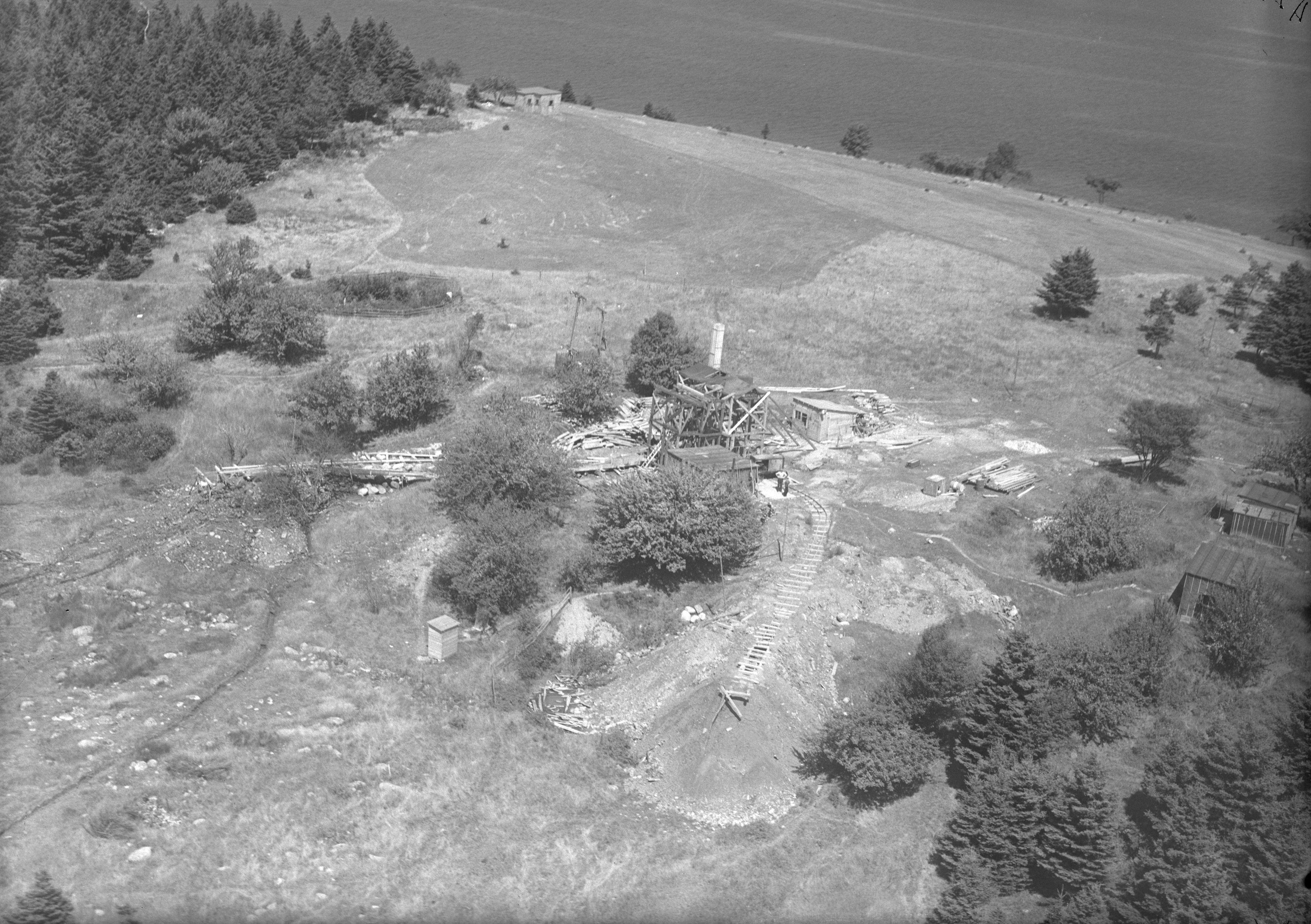 Digs and Buildings, Oak Island, Nova Scotia, Canada, August 1931. Format: glass plate negative; 12.5 cm x 17.5 cm.